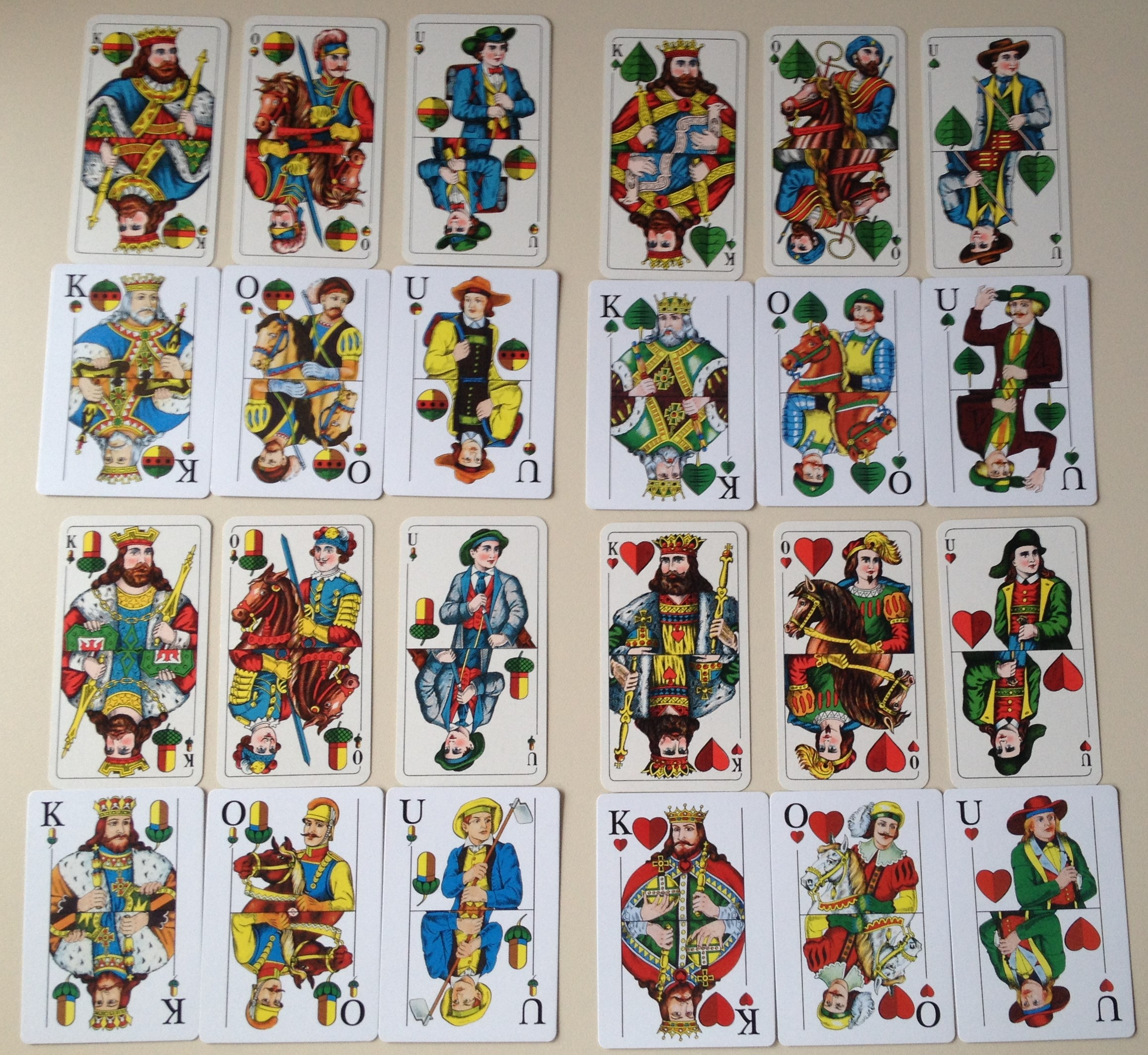 Württemberg pattern face cards. The ones on top are loyal to C.L. Wüst 's original designs. The lower cards are of a younger competing type.